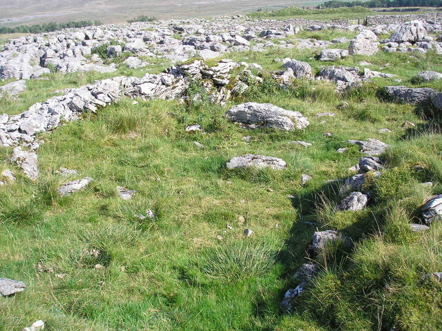 Viking kitchen. On this site was a Viking farmstead, consisting of a long house and two smaller buildings. Excavation of this building found the remains of an oven and a variety of animal bones, suggesting that it could have been the kitchen.